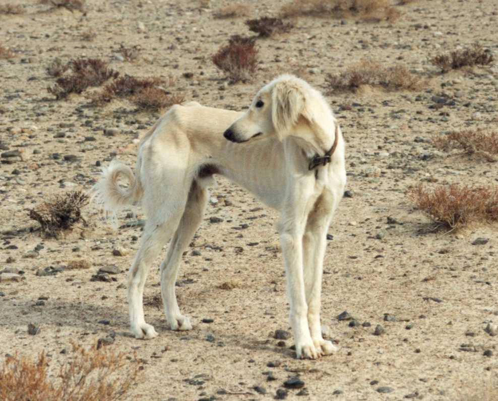 Tazi (Sredneaziatskaya Borzoya), a.k.a. Central Asiatic Tazi, Russian Tazi, Turkmenki and more … Tazi is sometimes even written Tazy, Tasi, Tazõ, Tadzi and more …